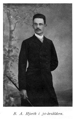 Berndt August Hjort